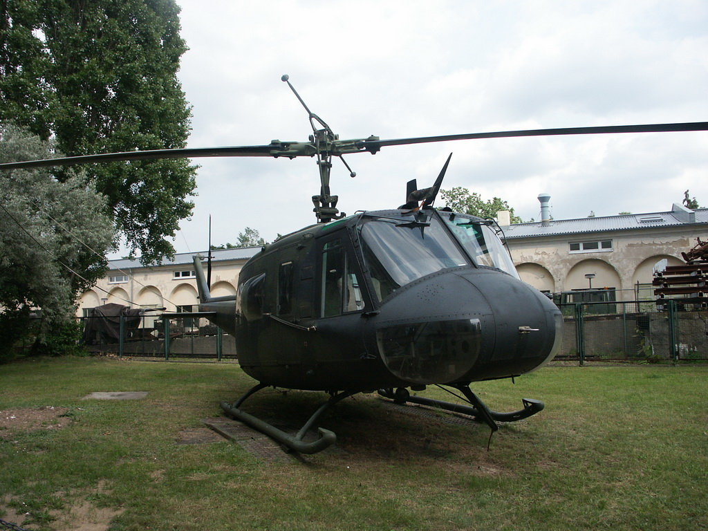 German Army Museum at Dresden - Bell UH